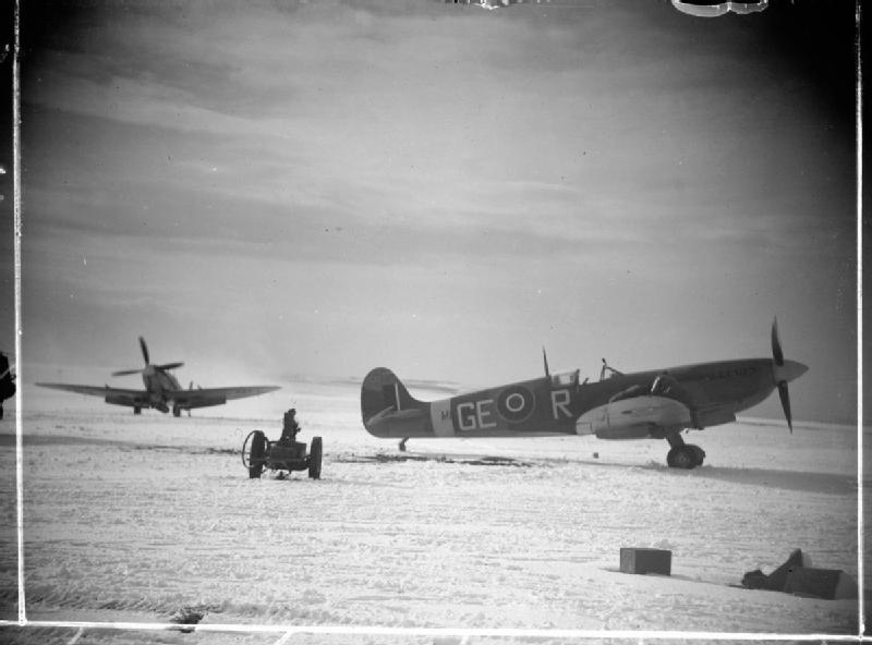 Royal Air Force- 2nd Tactical Air Force, 1943-1945. Supermarine Spitfire Mark IXCs of No.349 (Belgian) Squadron RAF, in the snow at Friston, Sussex, shortly before the unit joined 2 TAF.